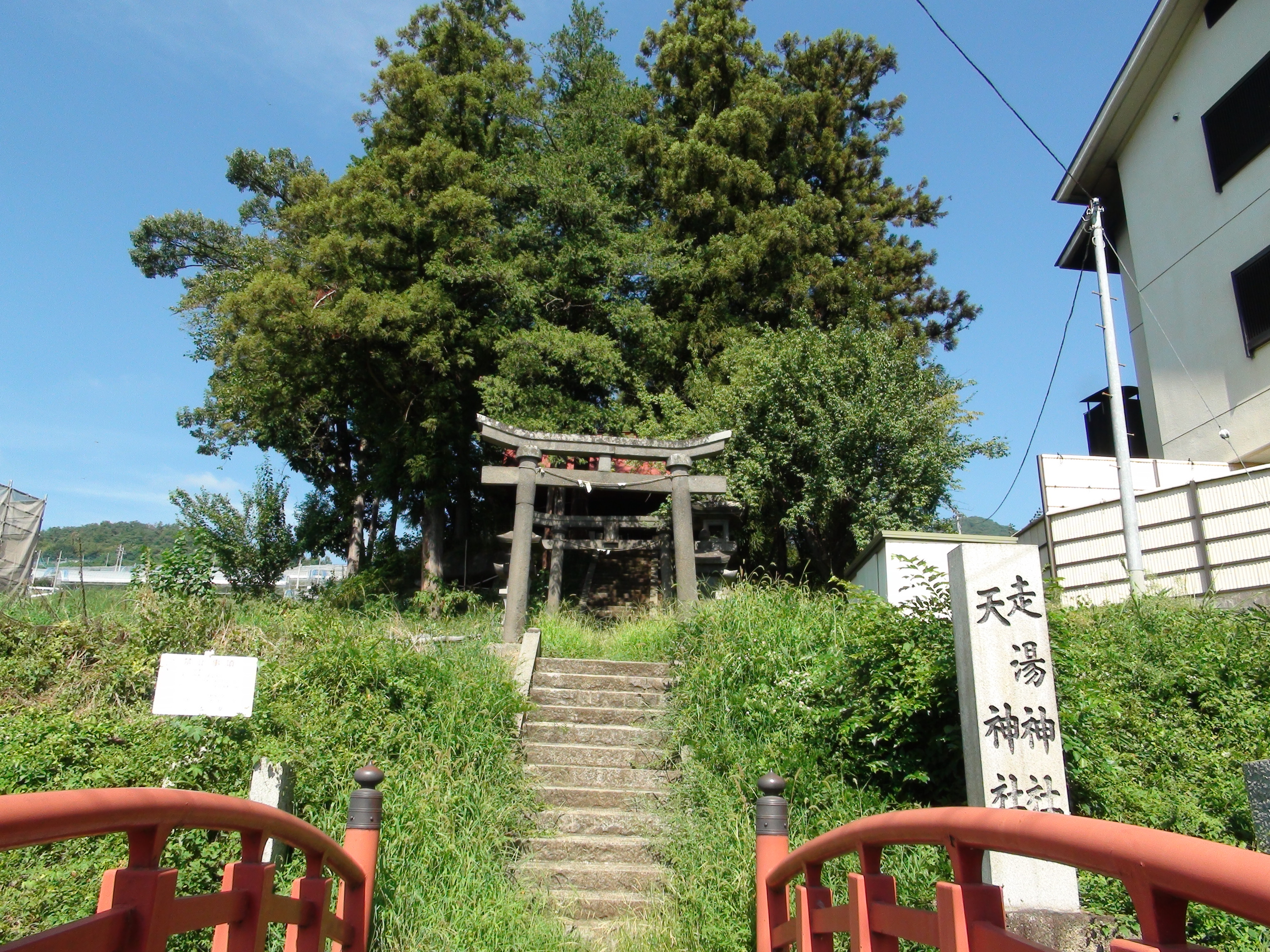 Souto-jinja shrine Yamanashi-city Yamanashi Japan